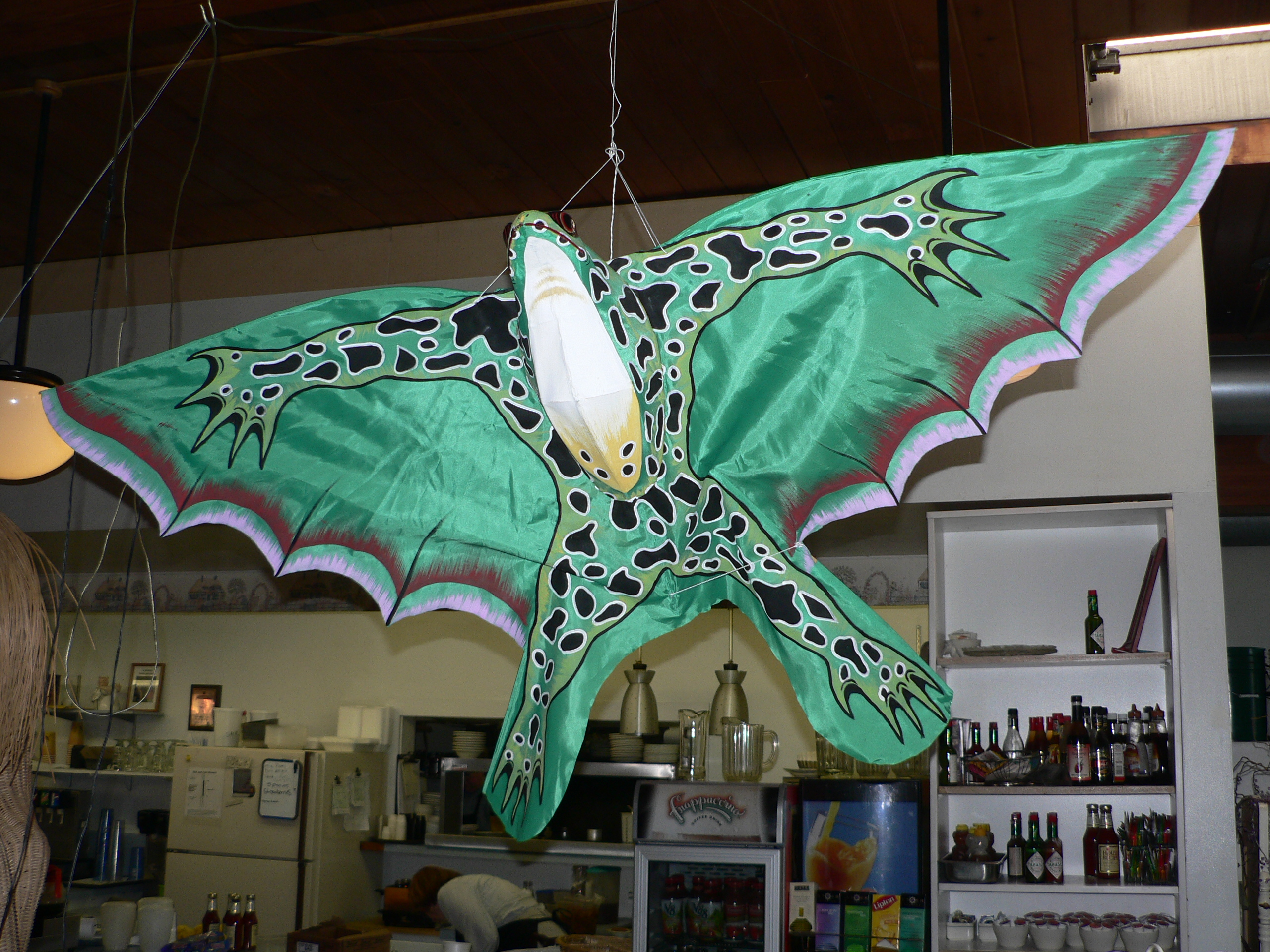 A kite as decoration; a frog kite hangs from a cafe ceiling with the kitchen behind.